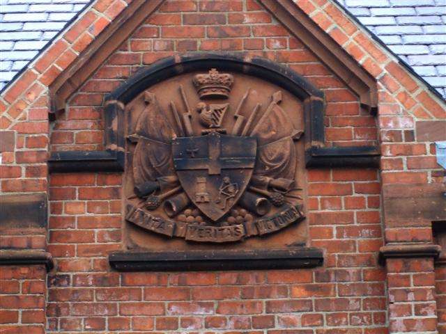 Coat of Arms, Fire Brigade, Derry / Londonderry It is located here 1187451